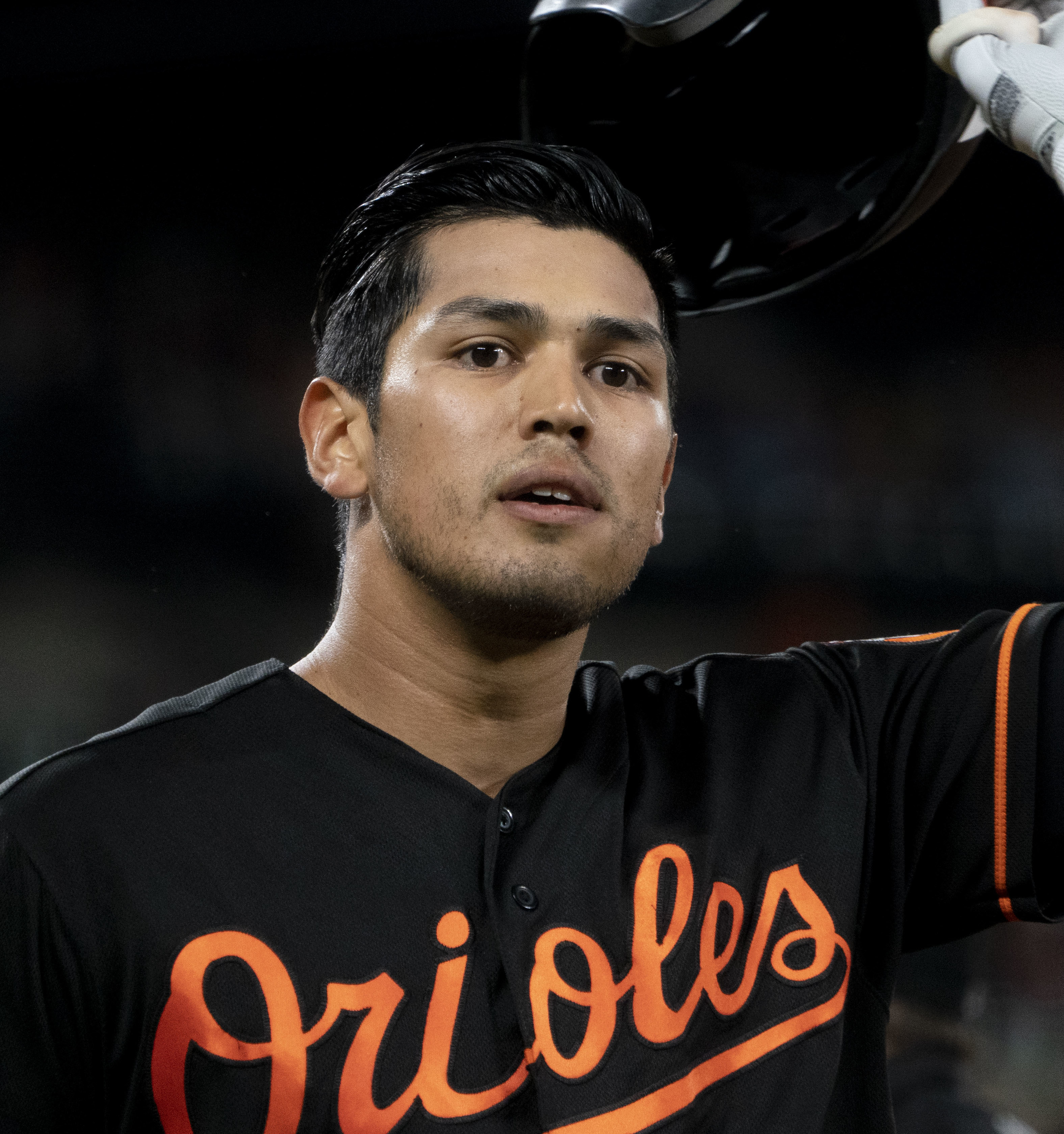 Red Sox at Orioles 6/14/19